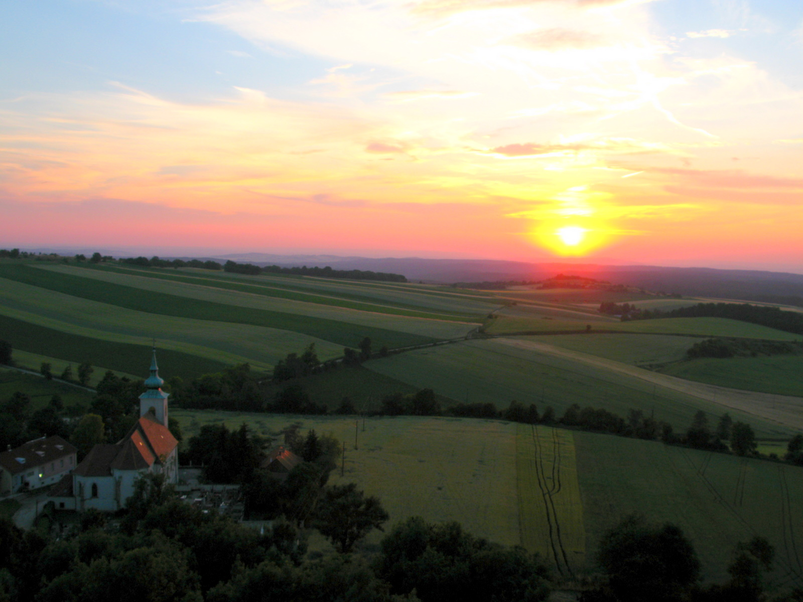 Oberleis near Ernstbrunn /Korneuburg / Lower Austria / European Union. View to the northwest of the lookout on Oberleiser mountain, part of the Leiser Berge. The little hamlet is surrounded by vast cornfields. In the place of the observation tower one day stood a Roman villa.